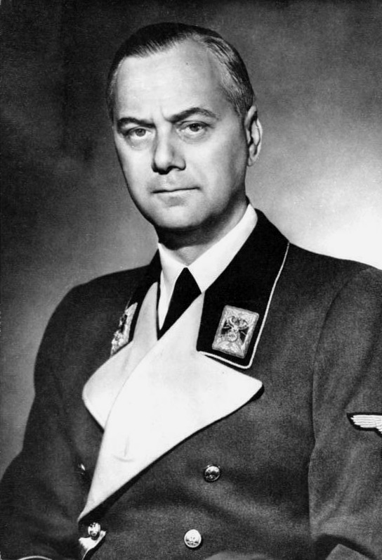 Alfred Rosenberg, Ideologe und Politiker des Hitlerfaschismus. geb. 12.1.1893 in Reval (Tallin), gest. (als Kriegsverbrecher hingerichtet) 16.10.1946 in Nürnberg. [Foto: FF Bauer, Berlin ?] Information added by Wikimedia users."FF Bauer" is SS photographer Friedrich Franz Bauer (1903-1972), well-known for his propaganda photos of the Dachau concentration camp and as Himmler's personal photographer.